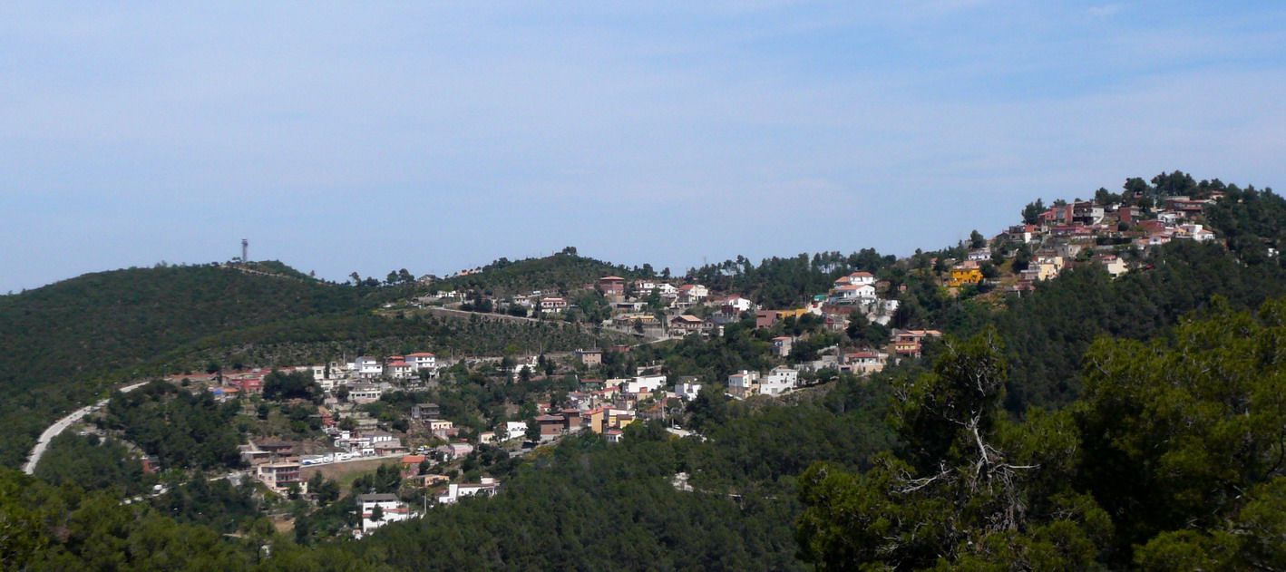 Les Planes de Vallvidrera (Sant Cugat del Vallès) seen from Mas Guimbau (Barcelona)